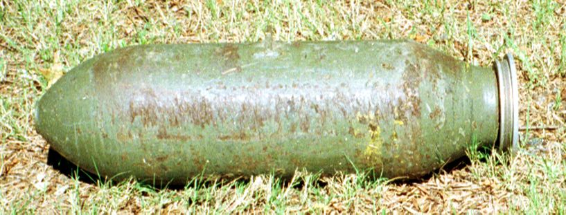 US BOMB, 250 Lb, GP ( 118 kg, containing 59 kg Amatol)